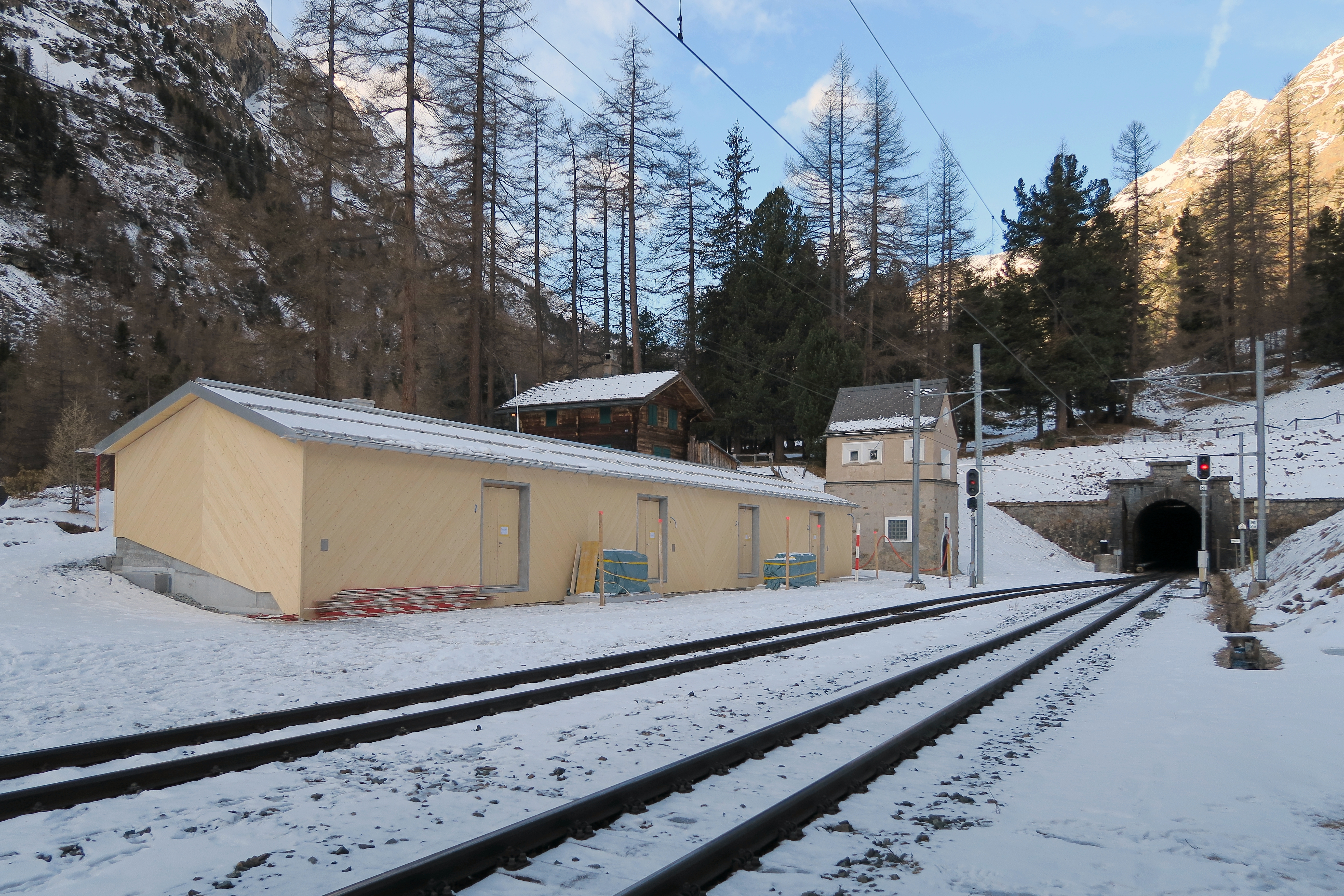 The construction site on the south side of the Albula tunnel at winter break. Preparations have already been made, but the excavation works for the new tunnel start next spring. Otherwise I couldn't just walk around here. Switzerland, Dec 25, 2014.